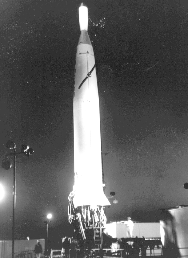 Thor Burner 1 launch vehicle waiting for a launch with satellite DMSP Block 2 F1, 10th September 1965.